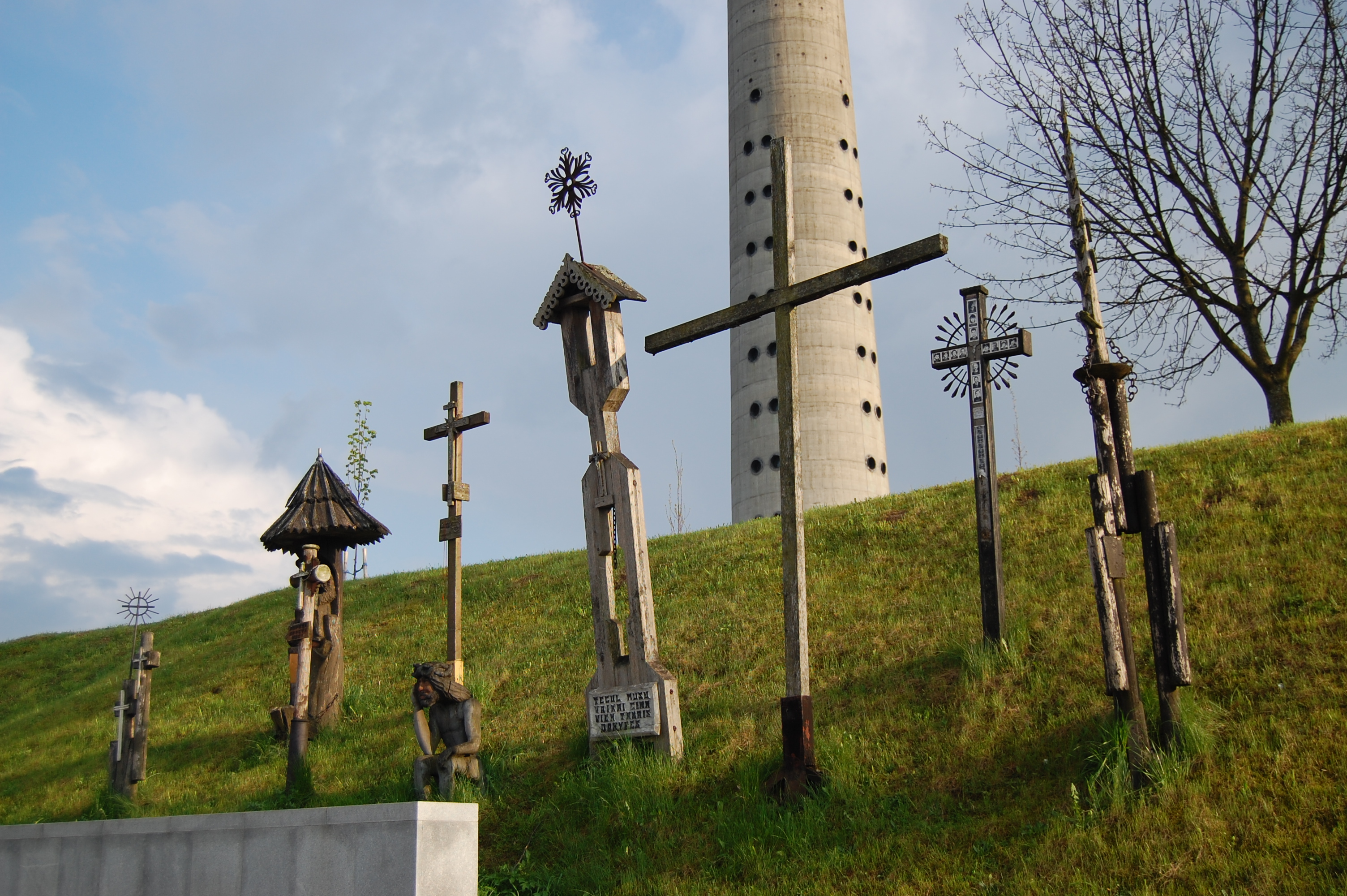 Crosses near Vilnius TV tower. Memorial of victims of Soviet military actions in Lithuania in 1991.